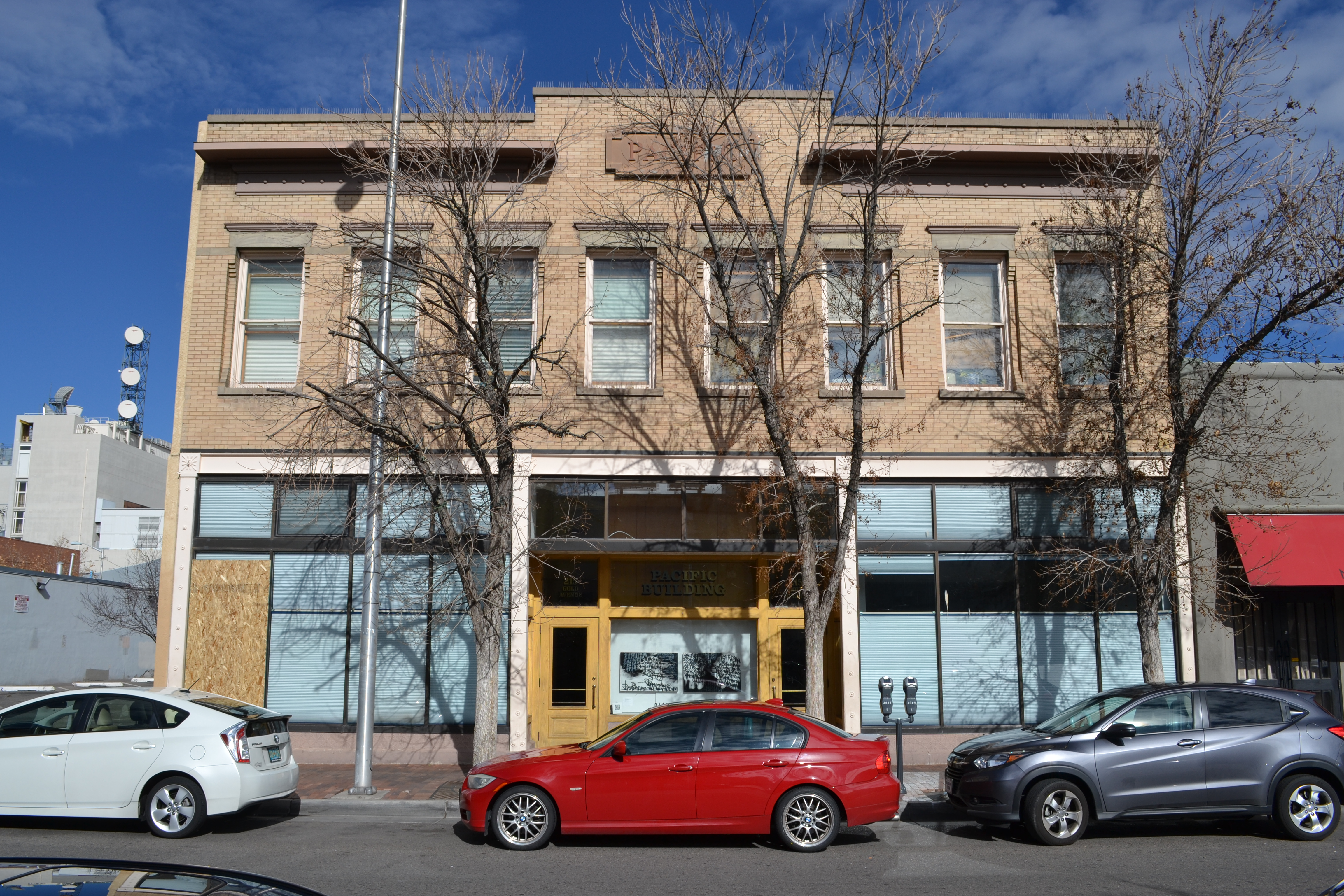 The Pacific Desk Building in Albuquerque, NM, USA, listed on the National Register of Historic Places